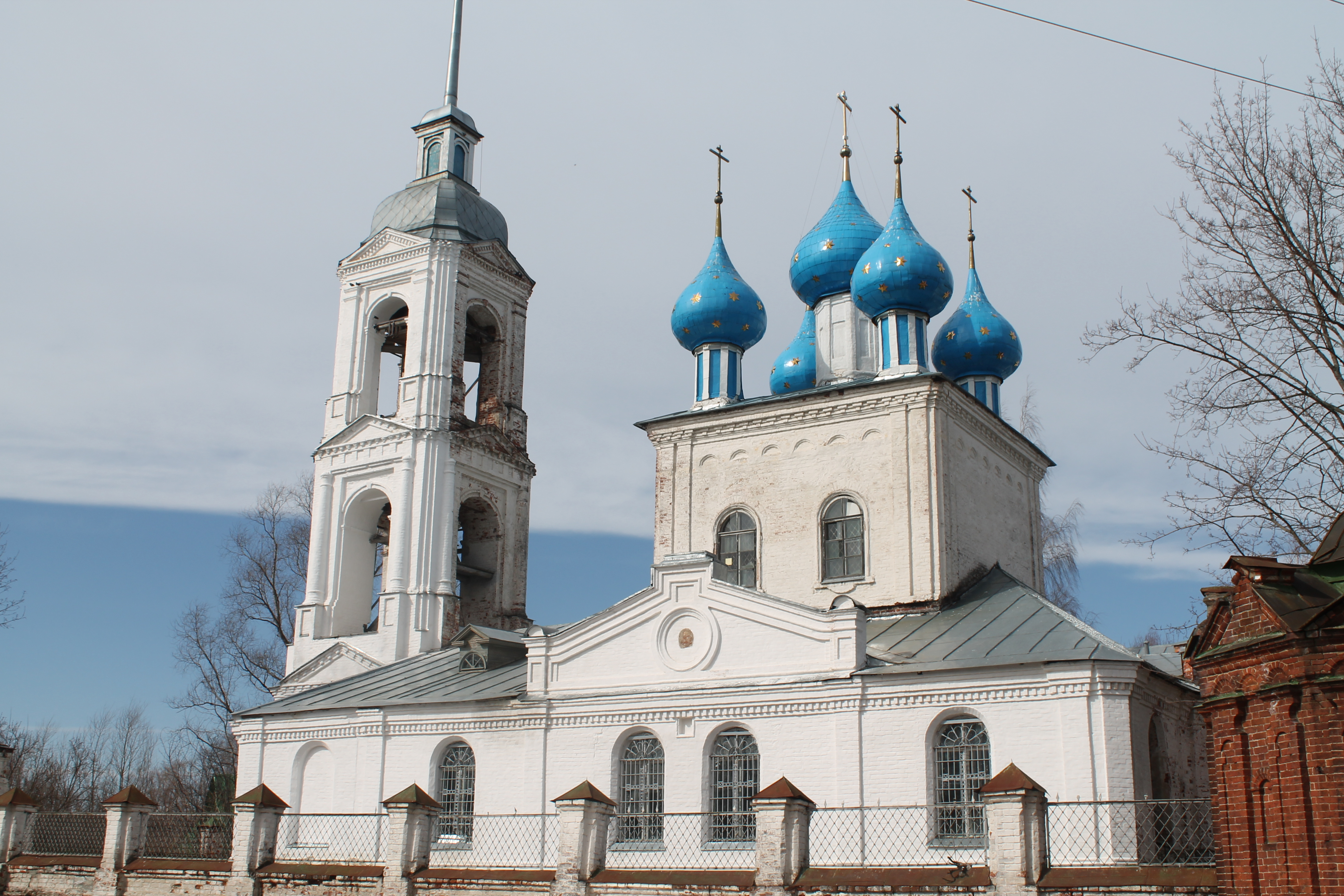 The temple complex. Church of the Annunciation and the Presentation of the Lord. April 2013